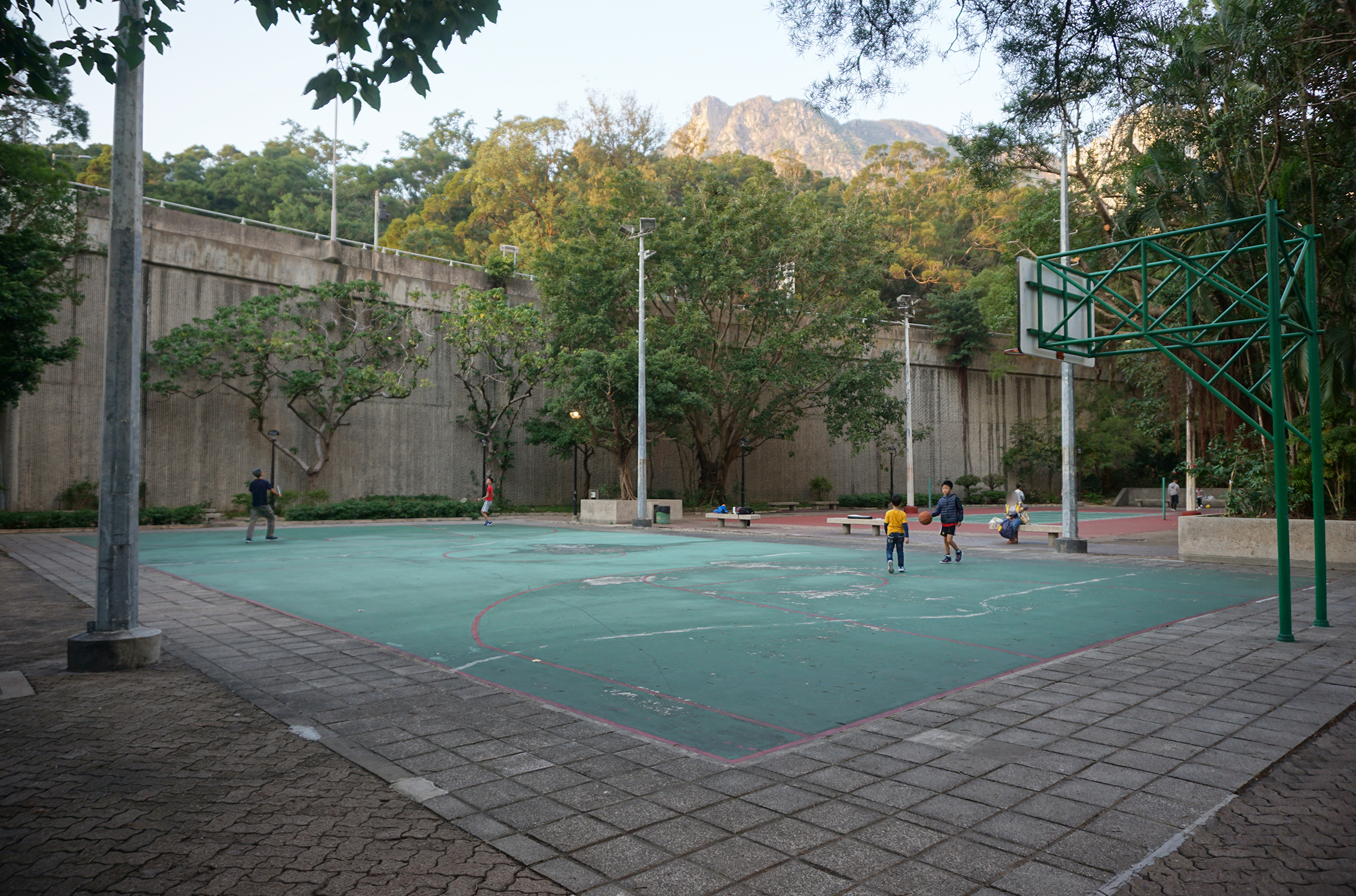 Tin Ma Court in Chuk Yuen, Hong Kong.